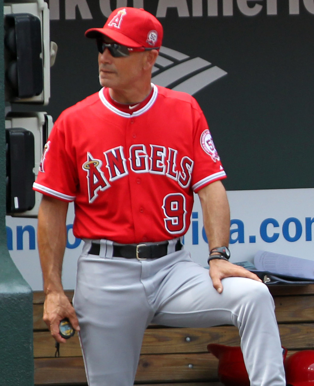 Bench coach Rob Picciolo (left) and manager Mike Scioscia of the Los Angeles Angels watch from the dugout during a 2011 game at Camden Yards in Baltimore.